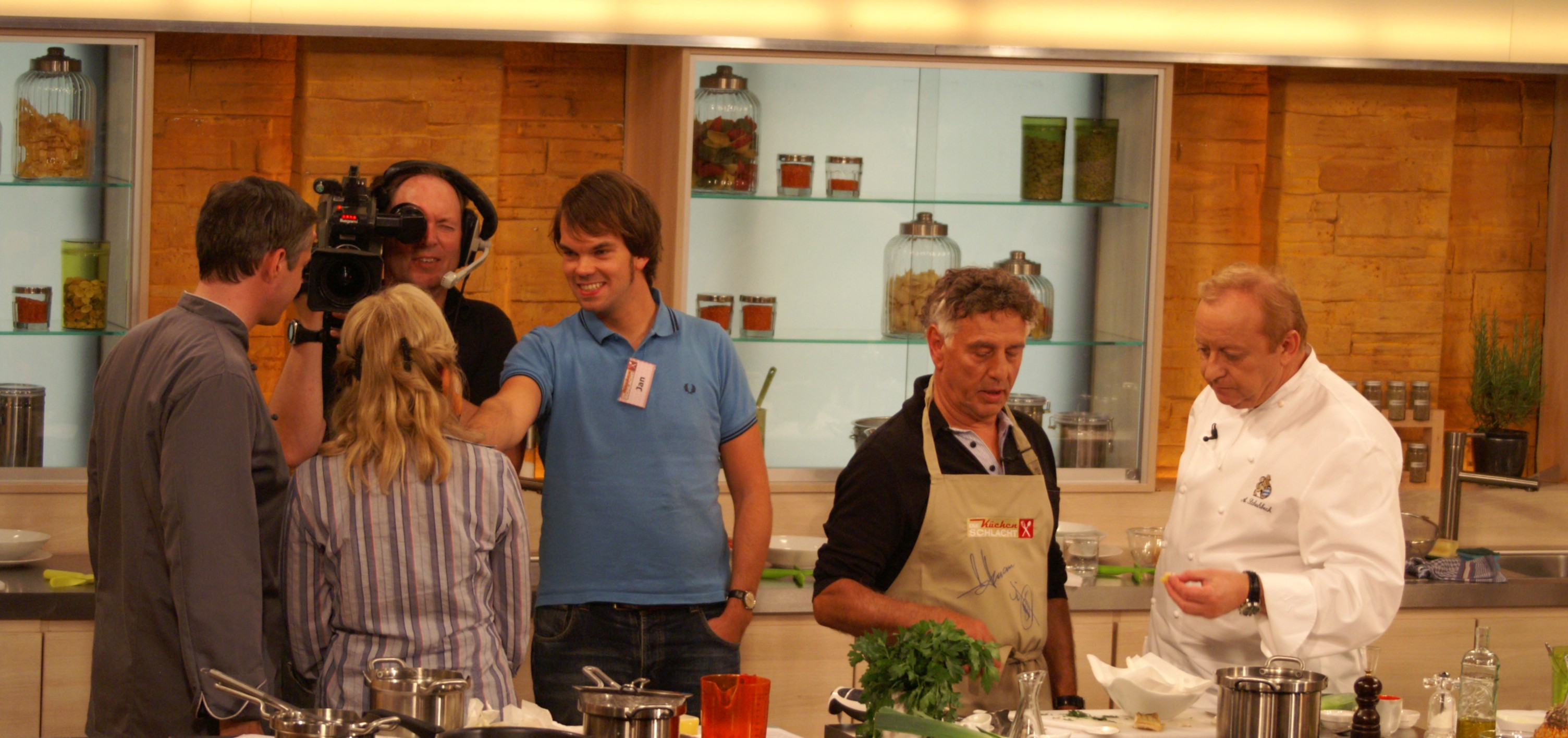 Television studio from second german Television Die Küchenschlacht, Alexander Herrmann, Alfons Schuhbeck and Candidates in Hamburg-Rothenbaum.